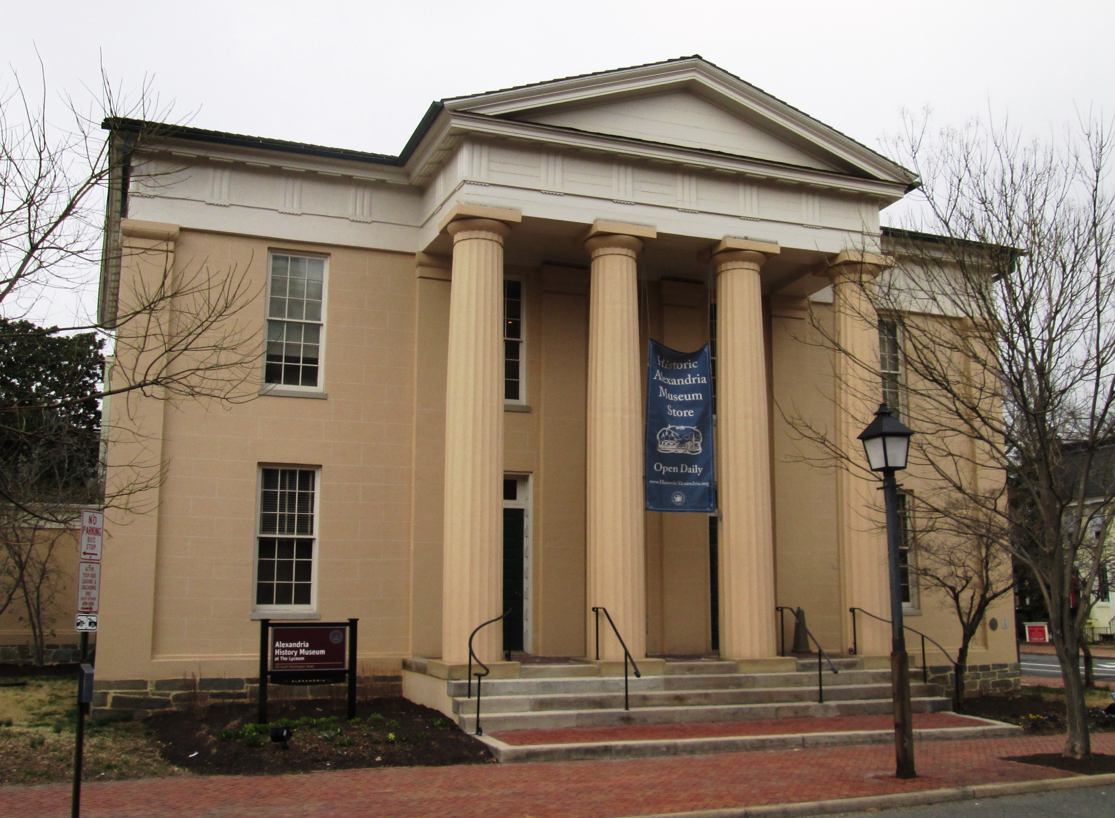 The Lyceum, located at 201 South Washington Street at the corner of Prince Street in Alexandria, Virginia, was founded in 1834 by by Benjamin Hallowell. This building, which served both the Lyceum and the Alexandria Library Company (founded in 1795), was built in 1839. The Civil War interrupted the activities of the Lyceum, and the building was used as a hospital. After the war it was dissolved, and the building became a private residence and then office space. It has been listed on the National Register of Historic Places since 1969. It is currently the location of the Alexandria History Museum. (Source: City of Alexandria)